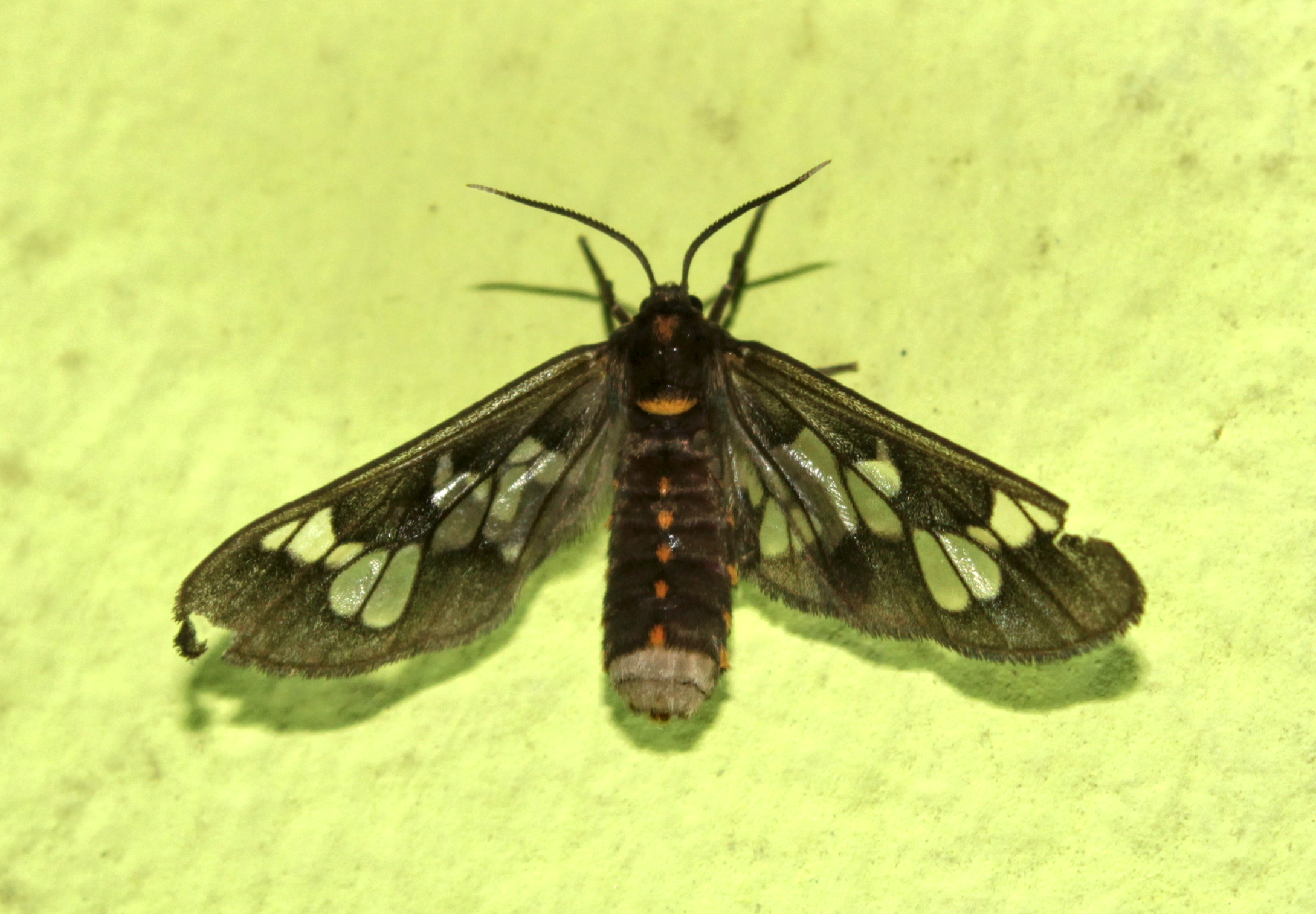 A Eressa confinis moth. Photographed near Kanjirappally, Kerala.